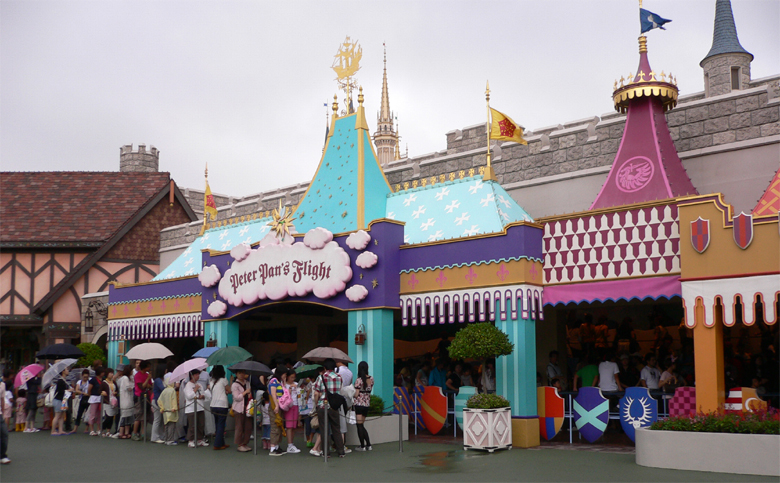 Peter Pan's Flight (Tokyo Disneyland Attraction)